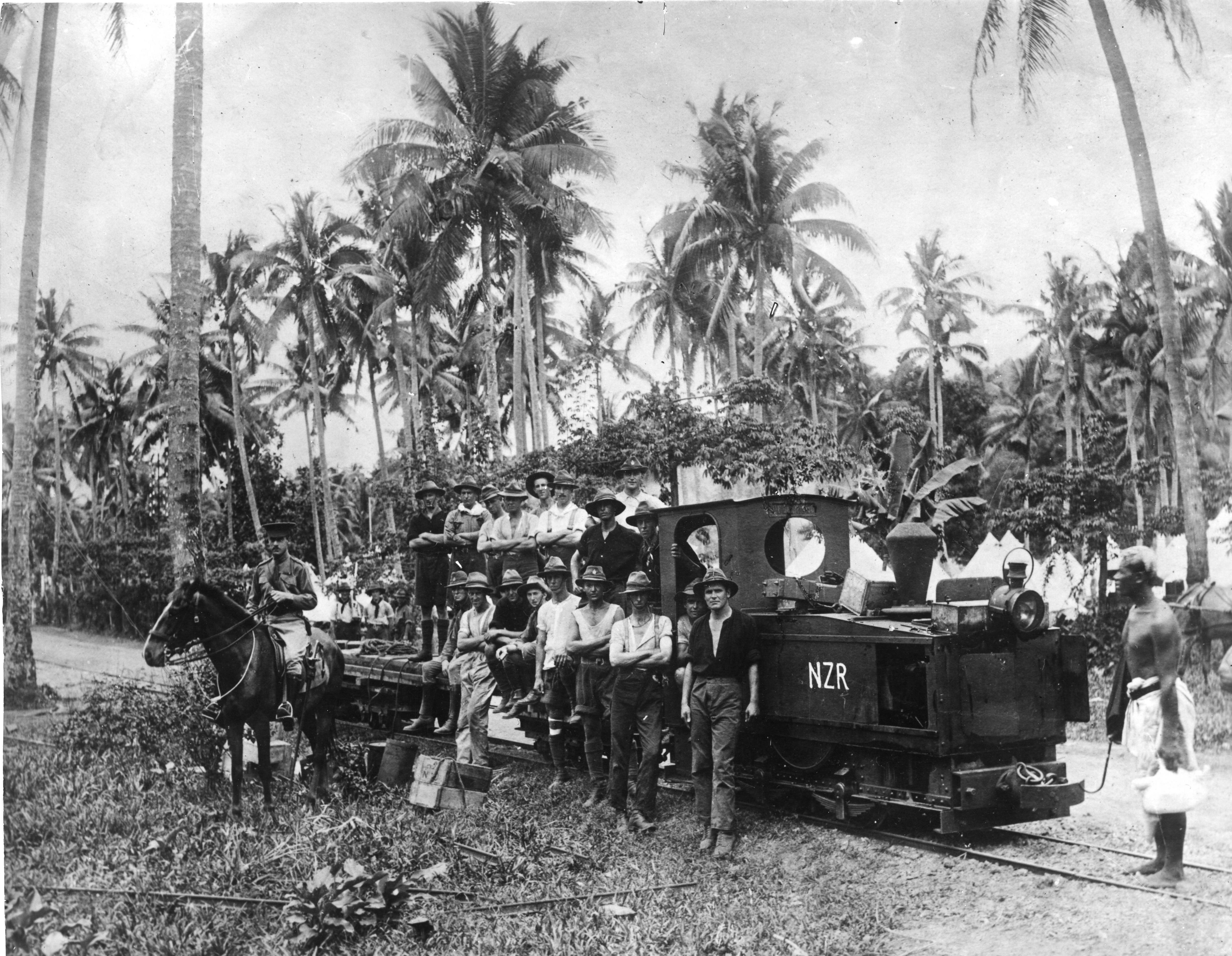 Members of the New Zealand Railway Engineers unit in Samoa pose alongside their commandeered German narrow-gauge locomotive, now bearing the letters 'NZR' (New Zealand Railways). The figure on horseback is Captain Percy St John Keenan, a career soldier who served as staff officer for the Railway Battalions before the war. He was initially chosen to command the Railway Engineers in Samoa, before being appointed Adjutant of the 3rd Auckland Regiment. Lieutenant Bert Christophers subsequently assumed command of the railwaymen. One of the men leaning against the engine has been identified as Sapper Peter Stanley Marriott, an NZR locomotive fireman who was later wounded while serving with a trench mortar battery on the Western Front. This photograph comes from a series of NZ Railways negatives. Archives Reference: AAVK 6389 W3493 Box 89/ C1279 Material from Archives New Zealand Caption information from